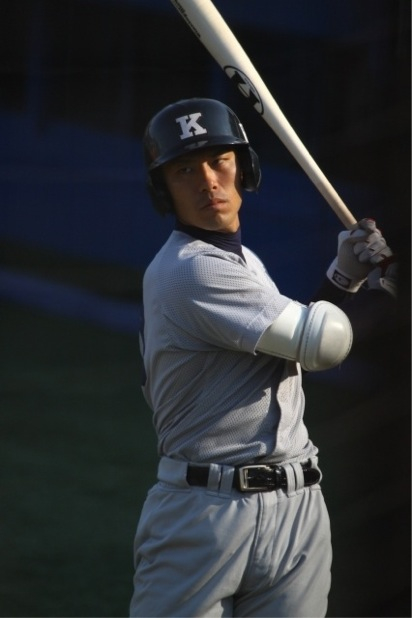 Hayata Ito, outfielder of the Keio University Baseball Club.